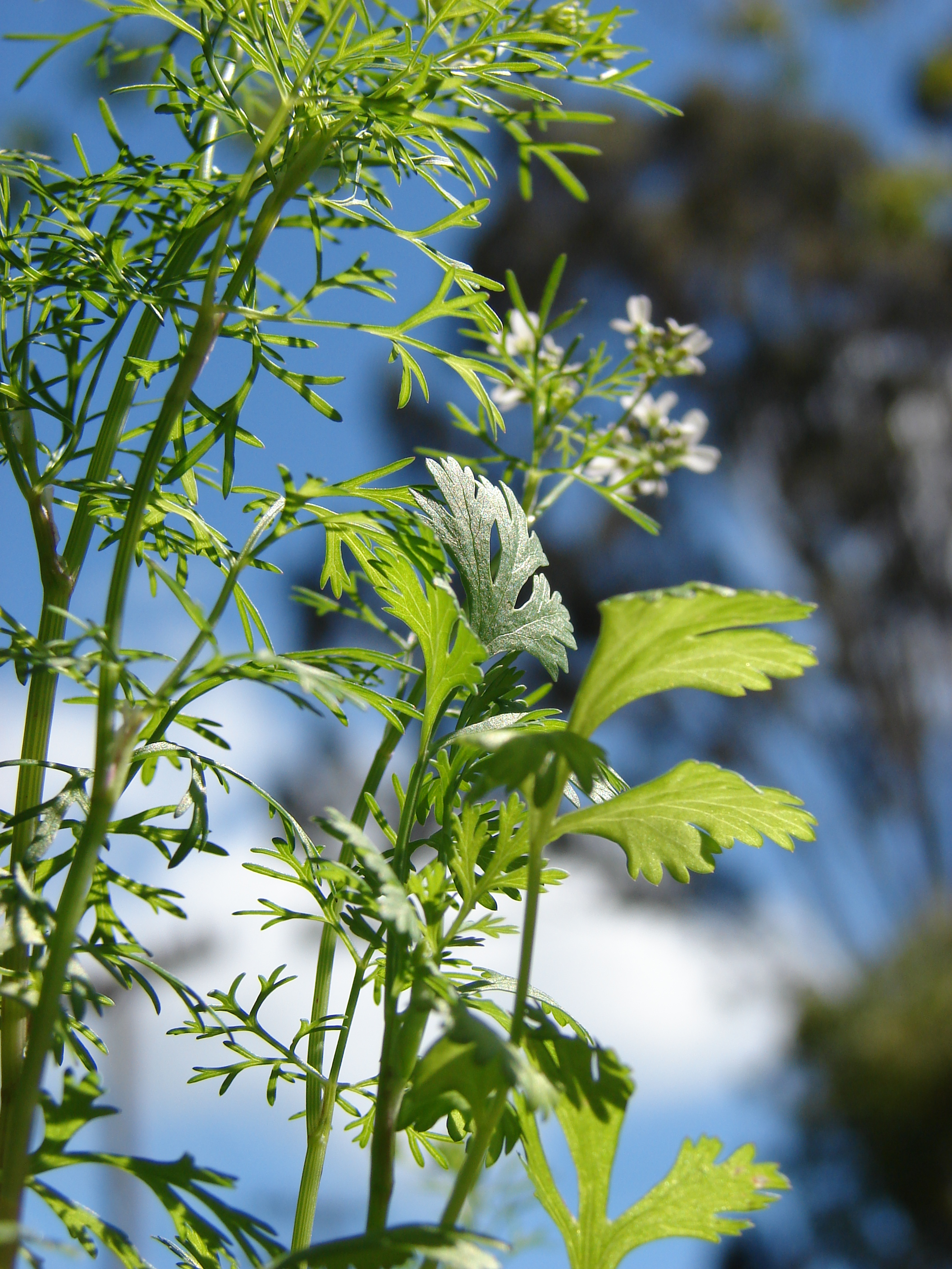 Coriandrum sativum (bolting). Location: Maui, makawao